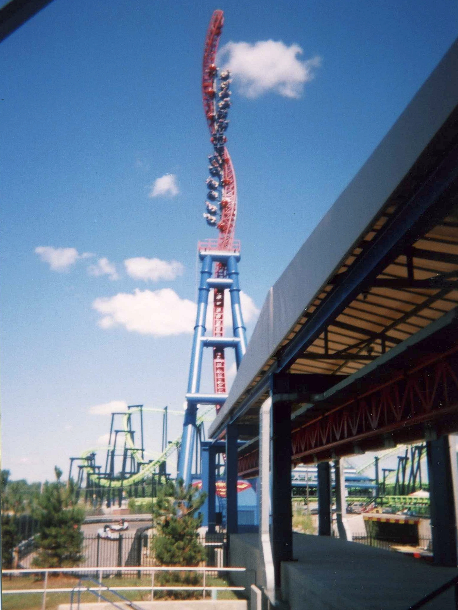 Superman: Ultimate Escape at Six Flags Worlds of Adventure